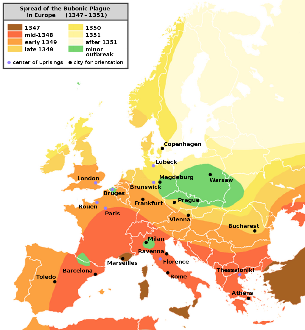 Bubonic Plague Map – with English text Spreading of the Bubonic Plague in Europe between 1347 and 1351 Note: The borders on the map illustrate present day borders, not those of the late 1340s!